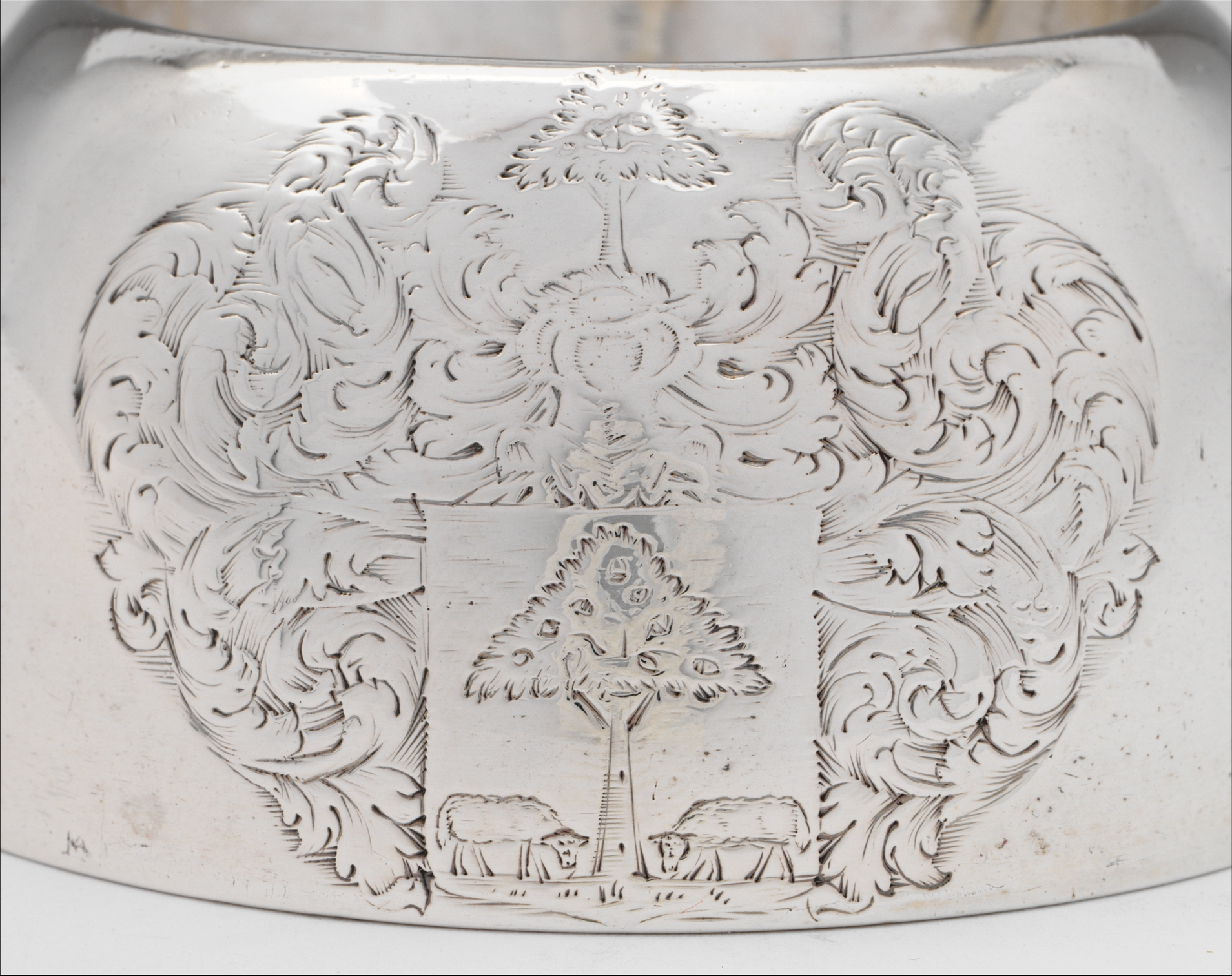 American; Salt; Silver